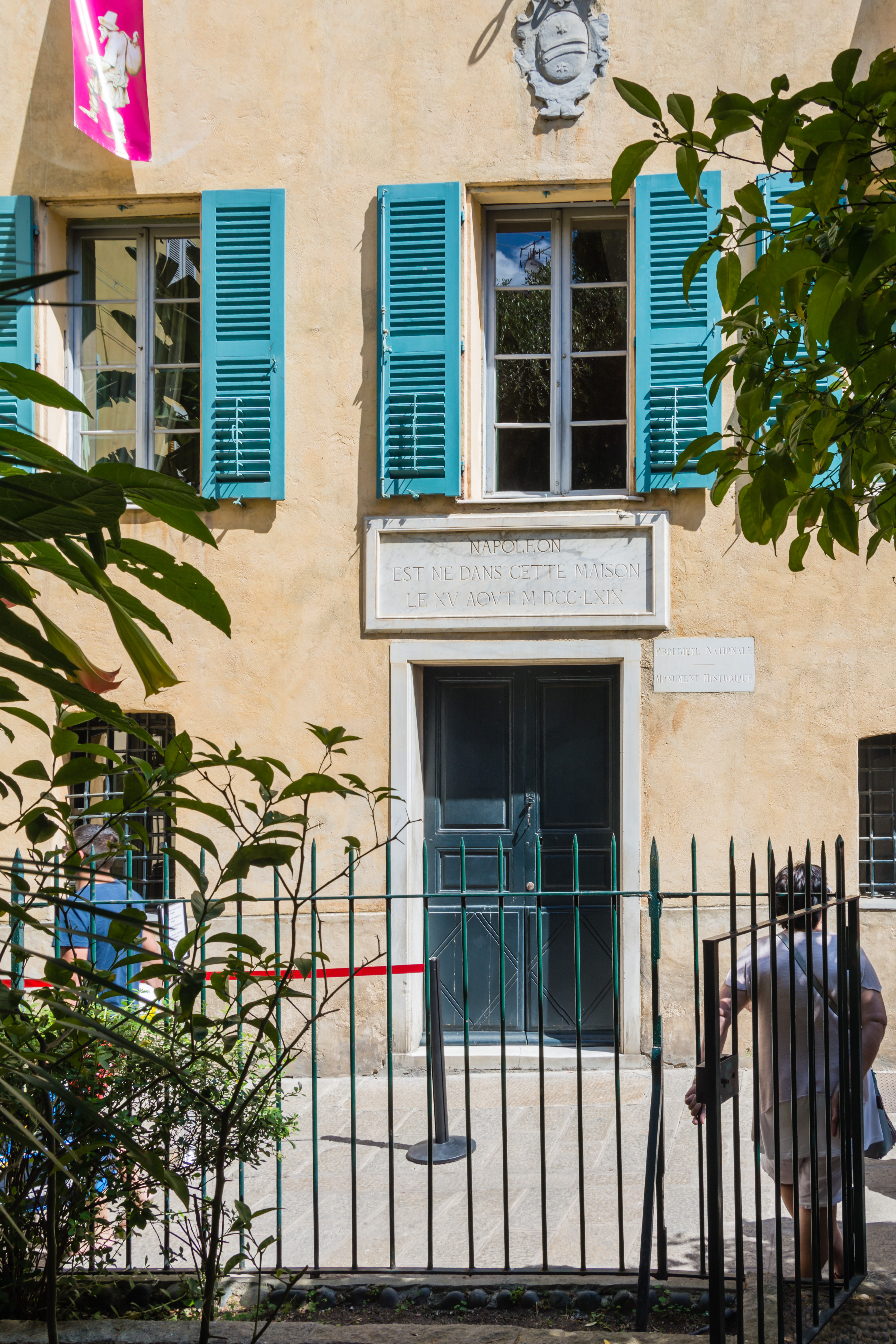 Birthplace of Napoleon Bonaparte in Ajaccio (Corsica).